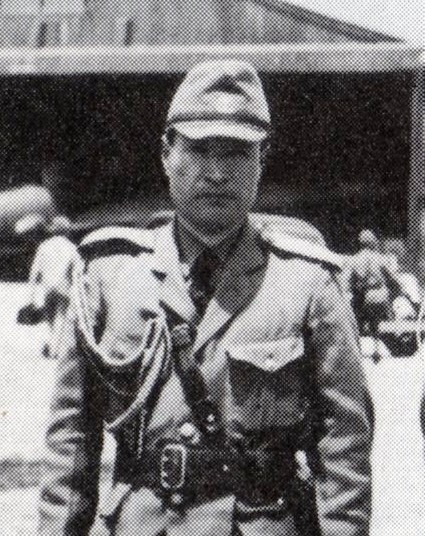 Yamamoto Yoshio is an Imperial Japanese Navy Rear Admiral